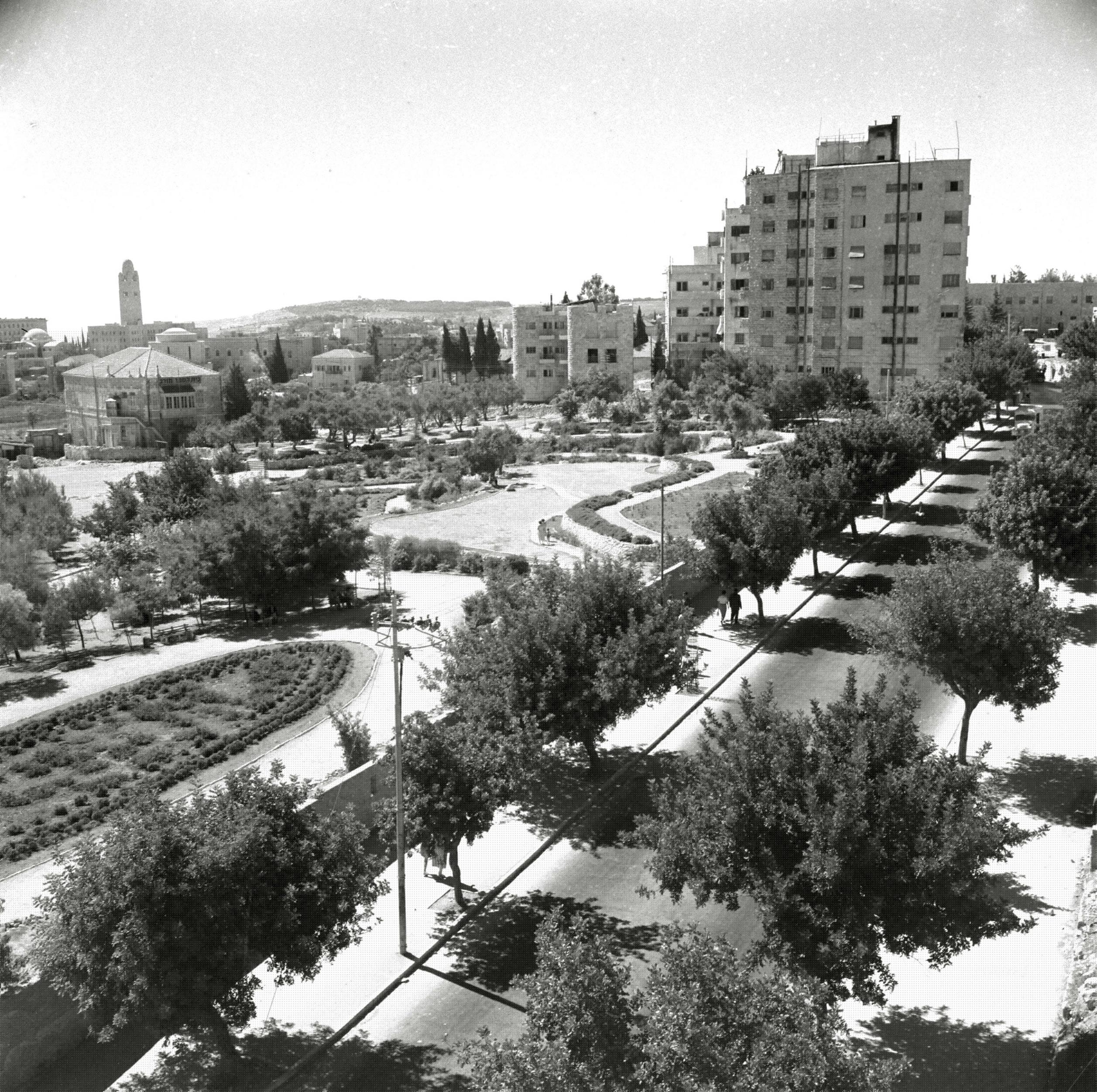 VIEW OF JERUSALEM AS SEEN FROM KING GEORGE STREET. מראה כללי של העיר ירושלים מרחוב המלך ג'ורג'. The street in the right of the picture is King George. The building on the top right is the Sochnut building. The park is The Meir Sherman park. Far behind is the YMCA tower.